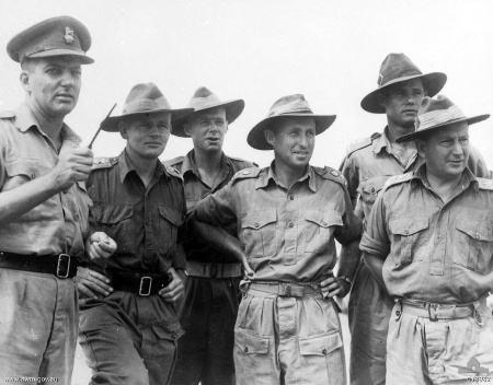 Location: Balikpapan, Borneo. Officers of the 21st Infantry Brigade of the 7th Australian Division. This Brigade played an important part in clearing the Japanese from Balikpapan. Left to right: Brigadier I. N. Dougherty NX148, Commanding Officer (CO) 21st Infantry Brigade Lieutenant Colonel F. H. Sublet CO, 2/16th Infantry Battalion Major L. E. Walcott NX34843, Brigade Major Lieutenant-Colonel P. E. Rhoden 3129001, CO 2/14th Infantry Battalion Lieutenant Colonel A. C. Sharp CO, 2/6th Field Ambulance Lieutenant Colonel K. S. Picken VX48 CO, 2/27th Infantry Battalion